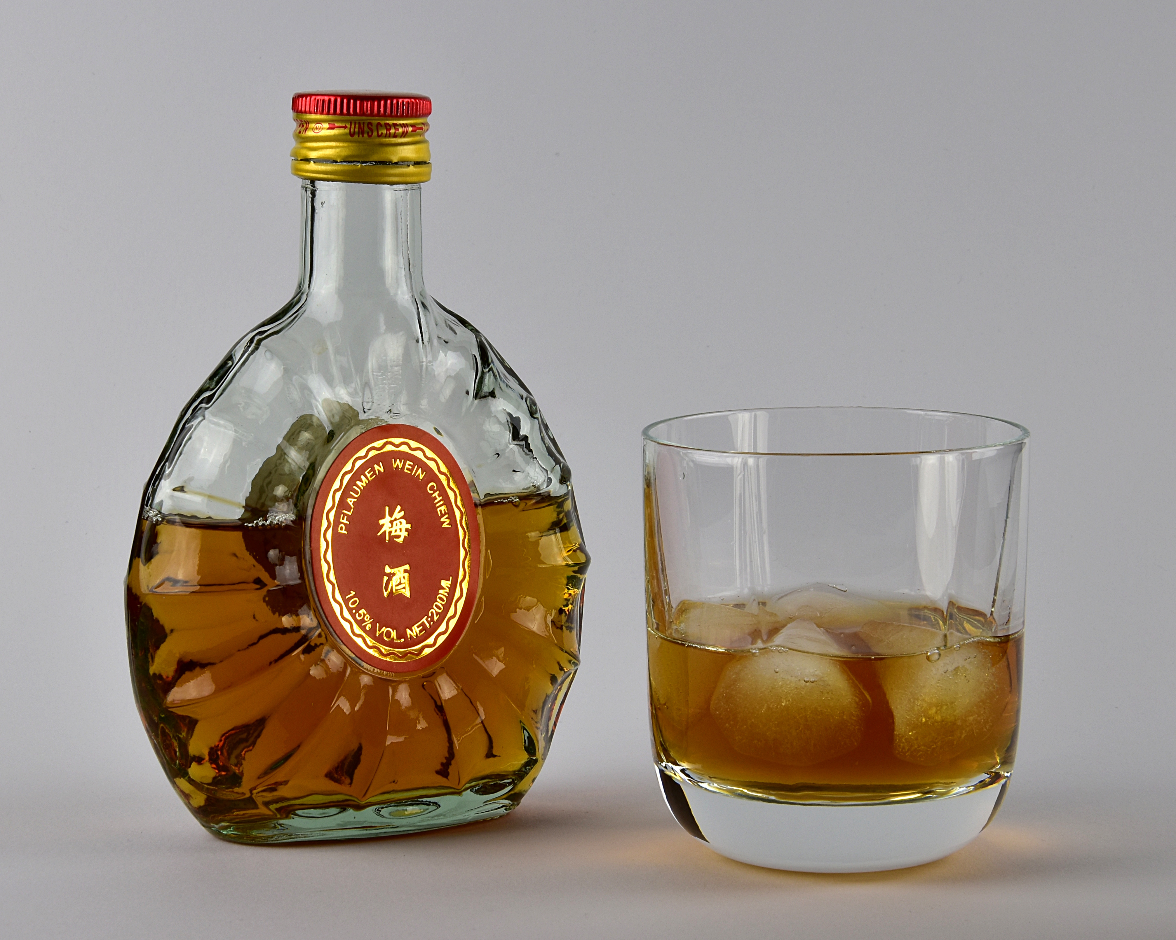 Chinese plum liquor (梅酒), an inexpensive variant sold in Germany as “Pflaumen Wein” (plum wine), served on the rocks. The ume fruits it's made from aren't really plums and it's not really wine or fruit wine though.